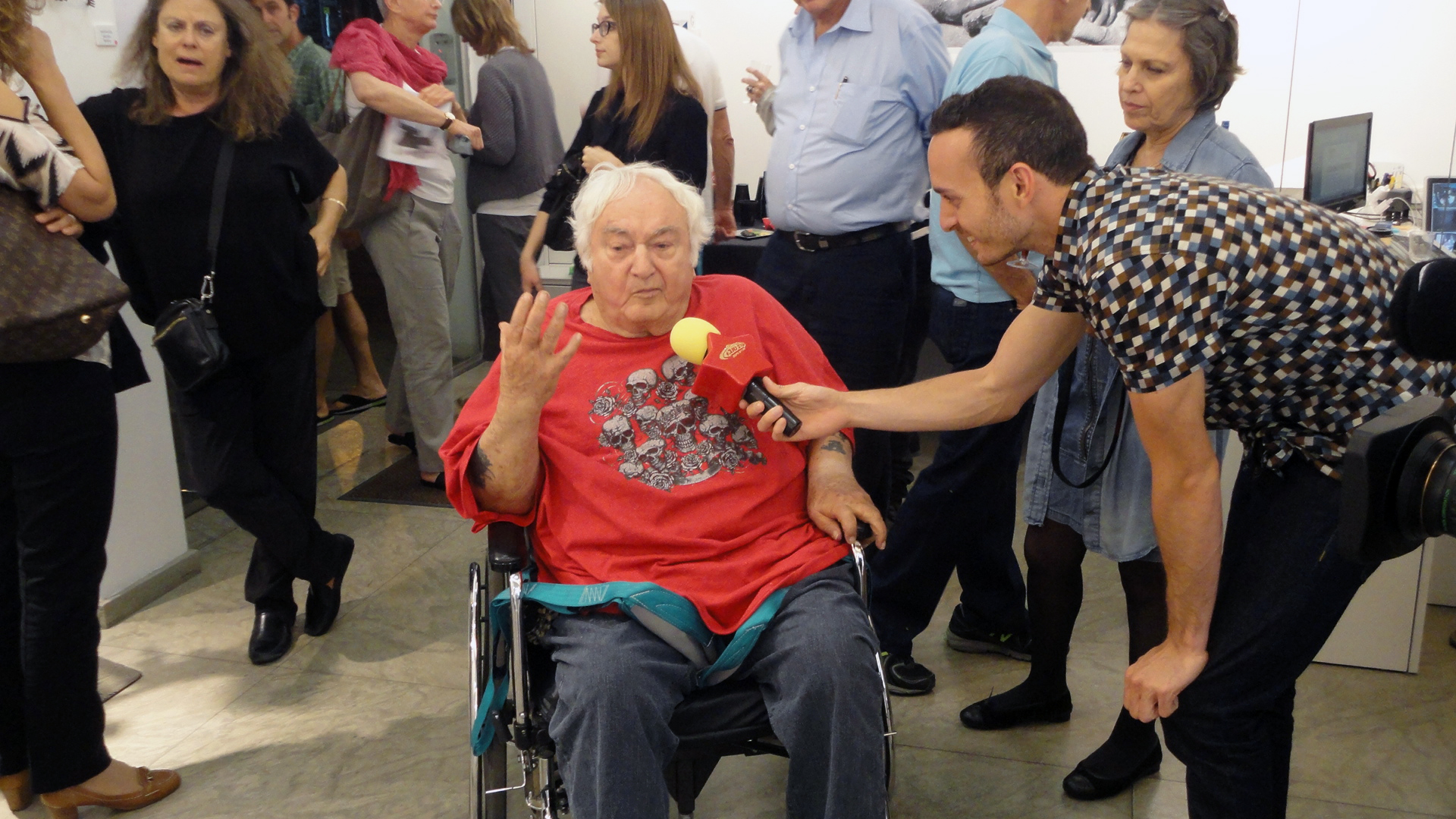 Igael Tumarkin: 31 Early Sculptures, Dan Gallery, Tlv, 2014